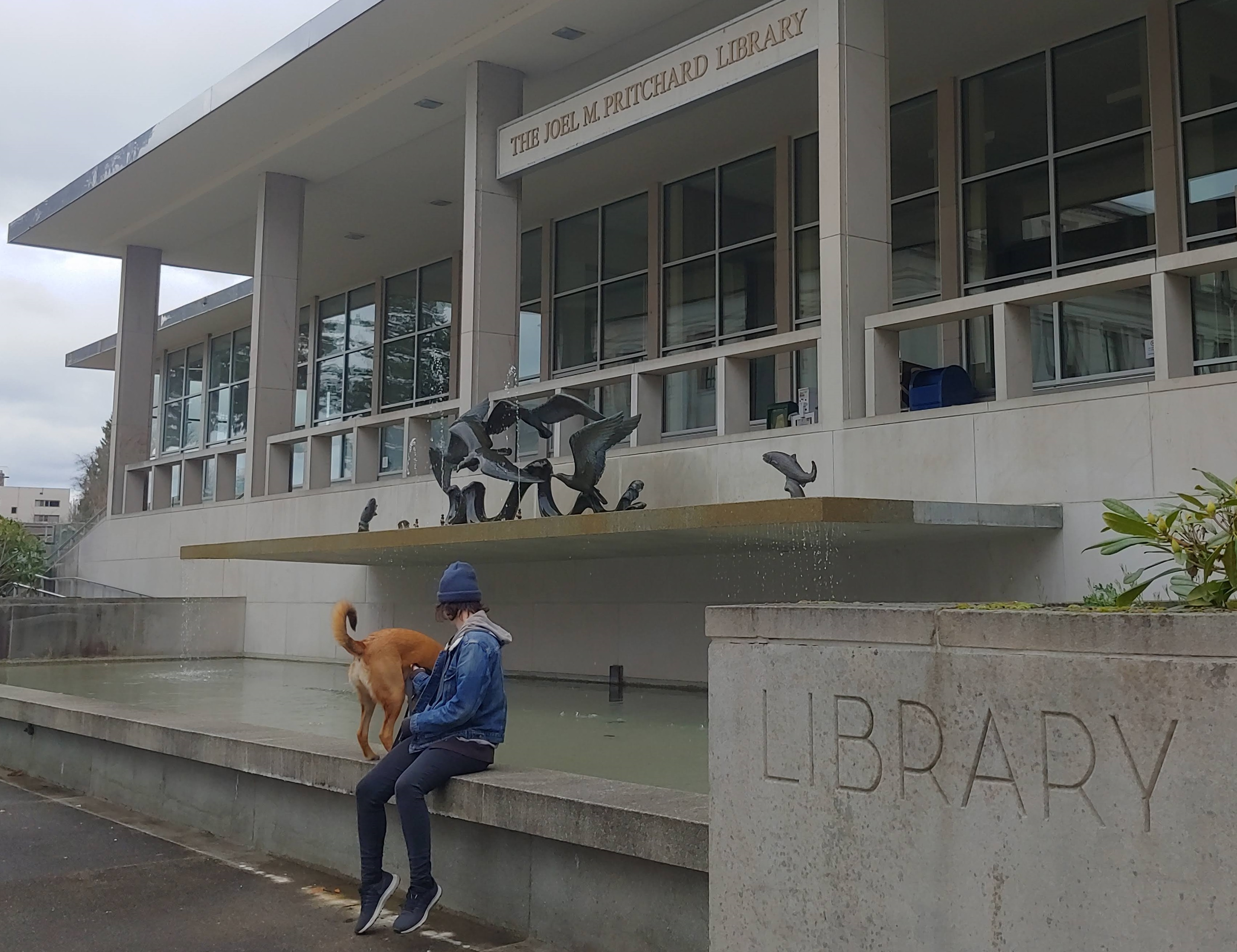 Front of the Pritchard Library and Du Pen Fountain at Washington State Capitol in March, 2020